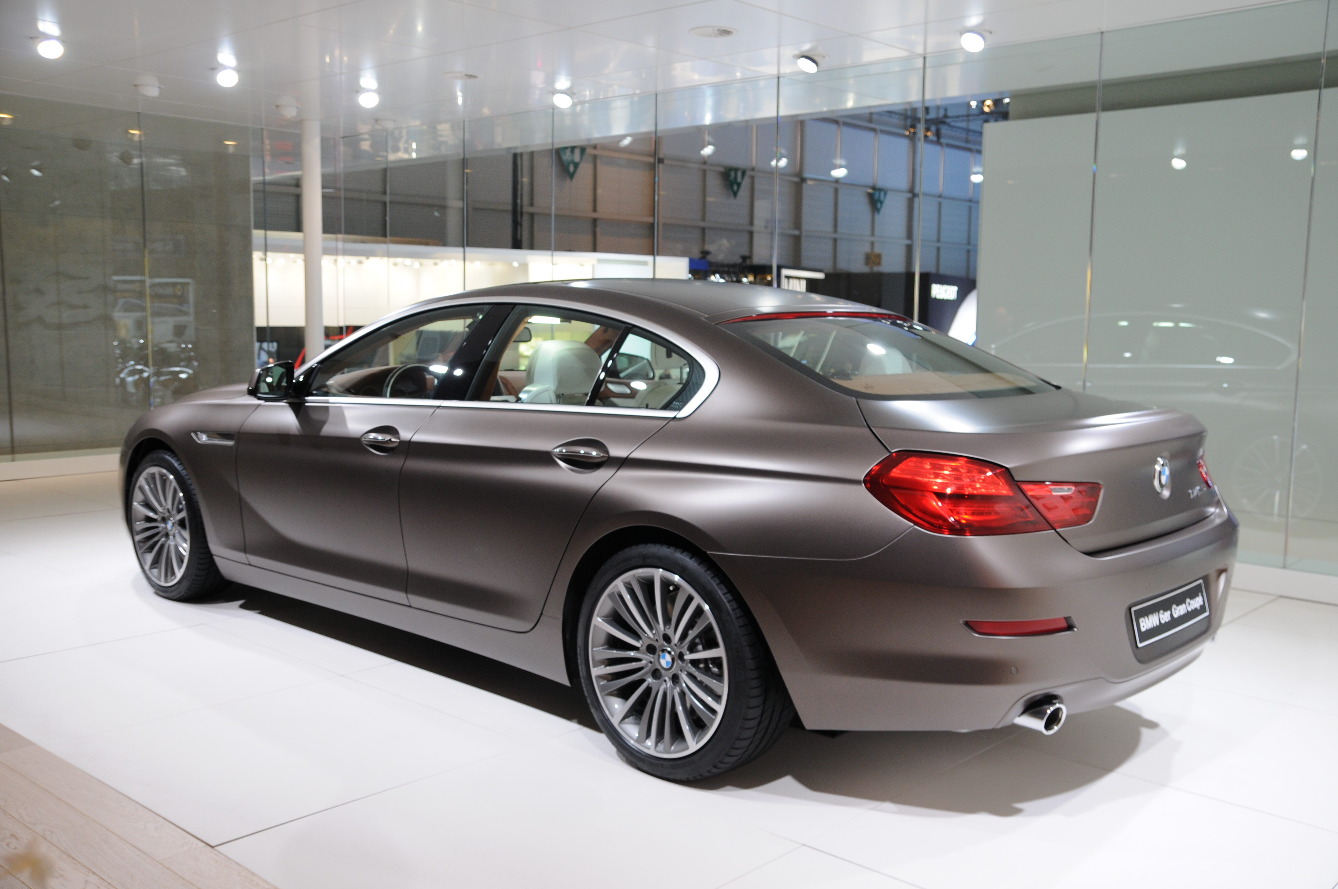 Geneva Motor Show 2012 (photos taken on the second press day)